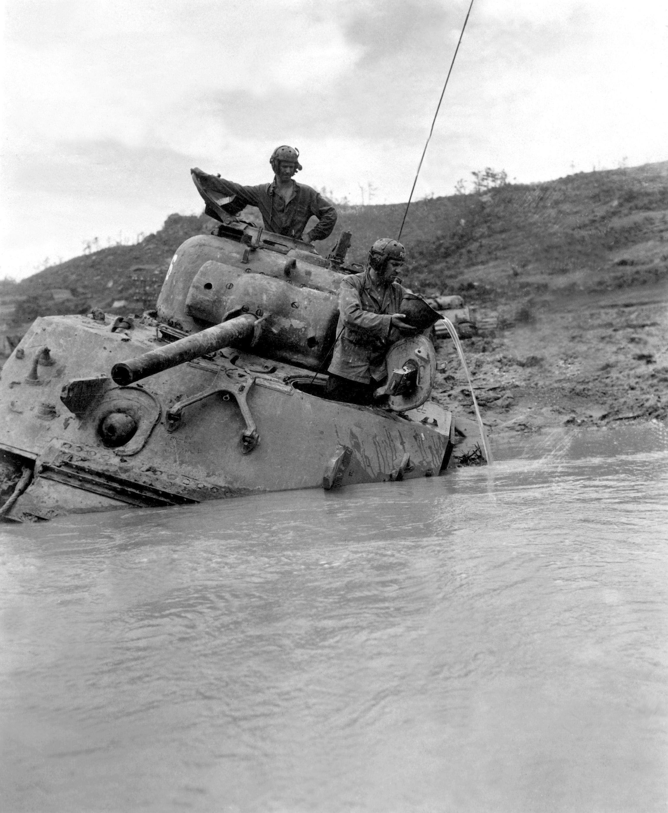 A tank sunk in 5 feet of water waits for towing equipment. The Tank Commander gives vent to his feelings with a string of unprintable phraseology, while his driver uses a helmet to bale out the interior. Okinawa, May 1945. Alexander Roberts. (Army) Exact Date Shot Unknown NARA FILE #: 111-SC-209070 WAR & CONFLICT BOOK #: 1234